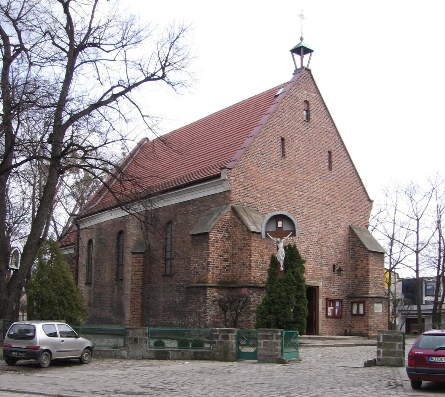 St. Jacob & st. Christopher Church in Psie Pole, Wrocław